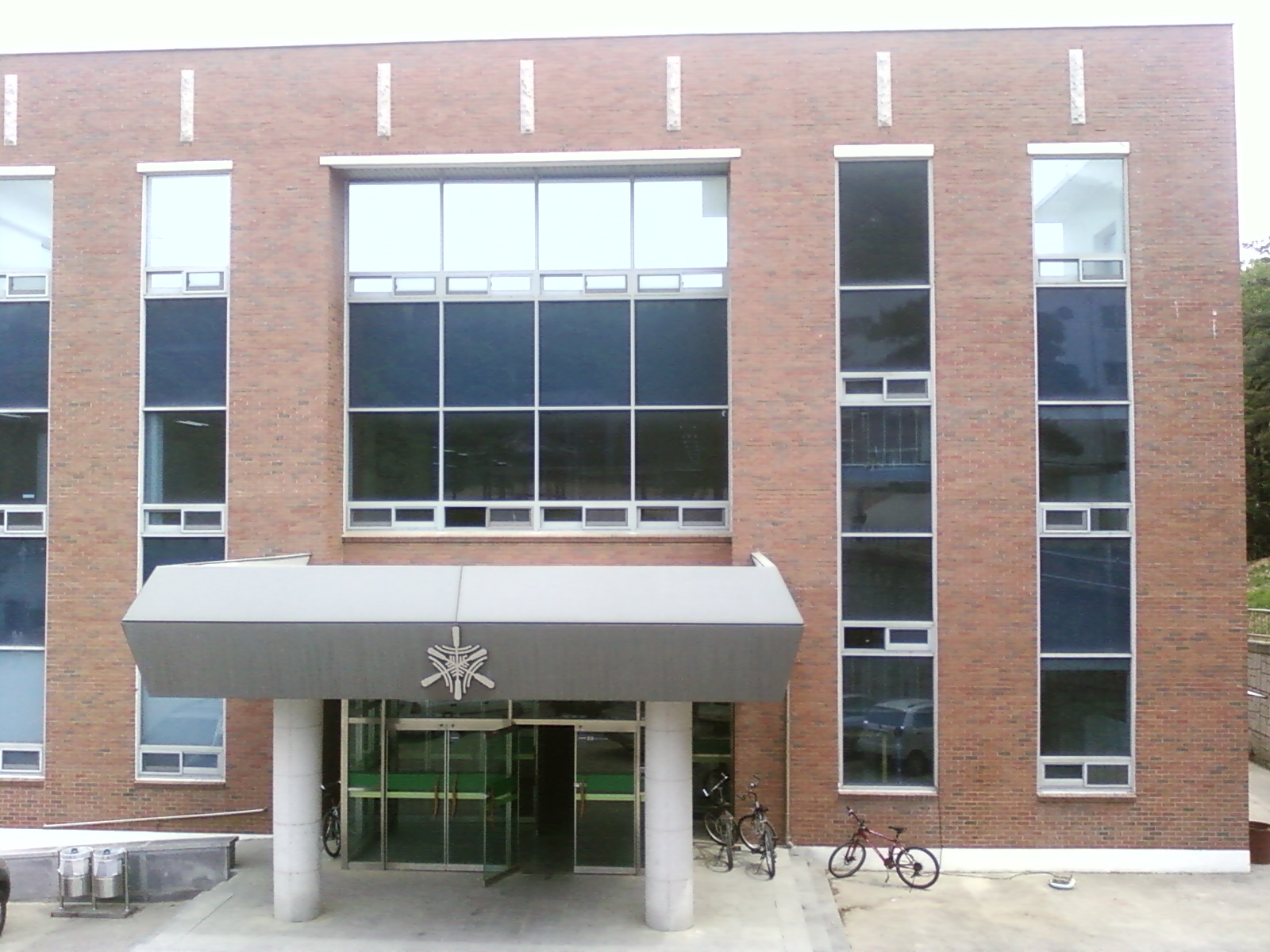 Gimcheon High School Songseol Library, in South Korea.